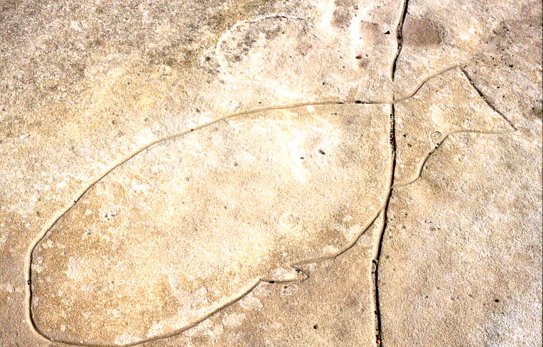 Aboriginal rock carving of fish, inside larger carving of a whale, track from Bondi Beach to Tamarama, Sydney